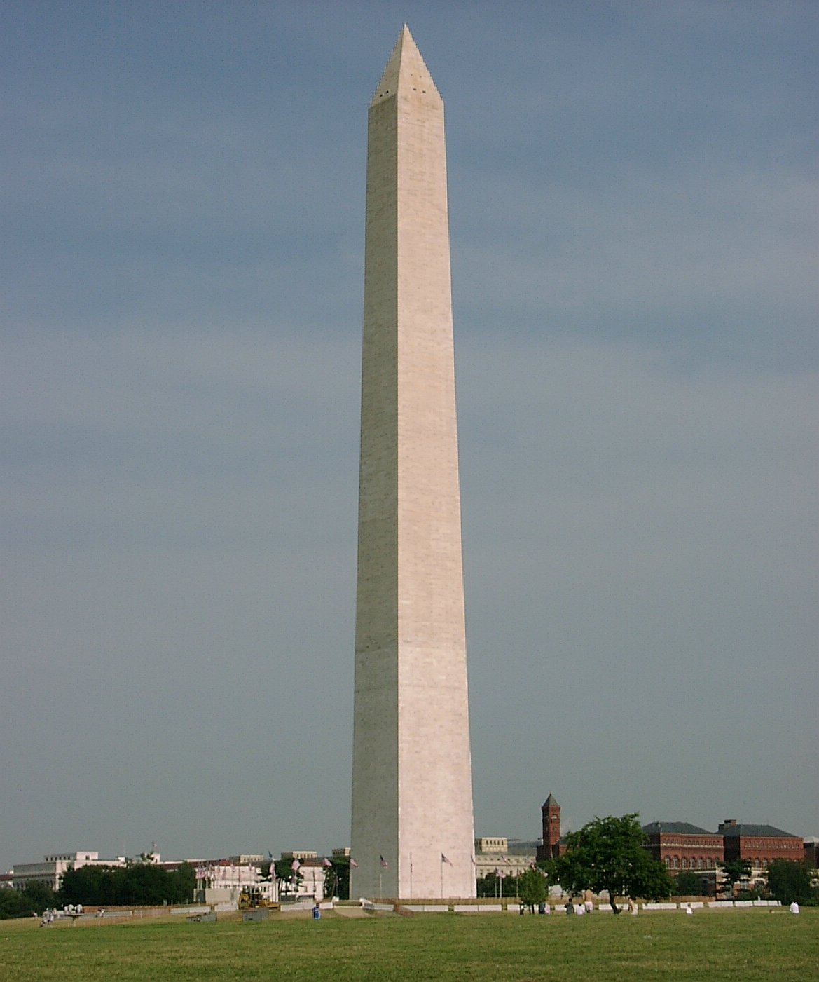 Washington Monument in Washington DC